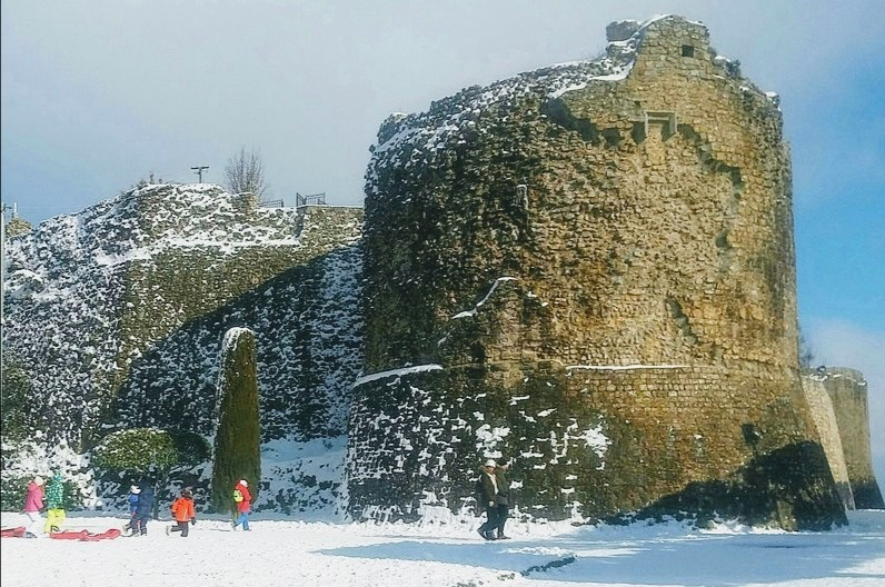 The castle of Ariano Irpino (Italy) in winter